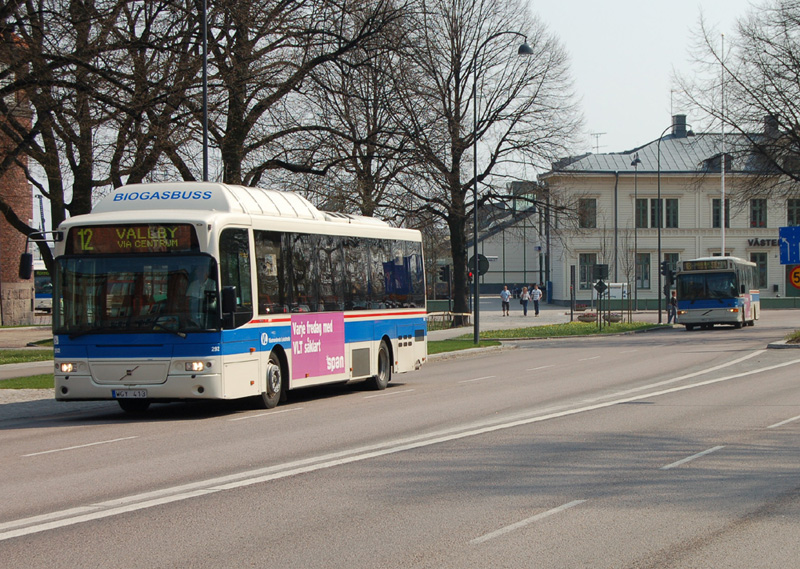 Volvo 8500 LE CNG bus with Volvo B10BLE chassis in Västerås, Sweden. Västmanlands lokaltrafik (VL) operator. Biogas.